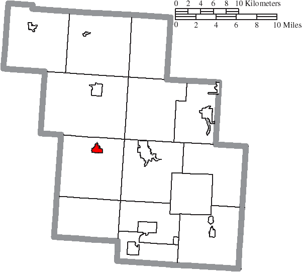 Map of the municipal and township boundaries of Perry County, Ohio, United States, as of the 2000 census, with the location of the village of Junction City highlighted. Township borders are shown only in unincorporated areas in order to differentiate incorporated and unincorporated areas more clearly.